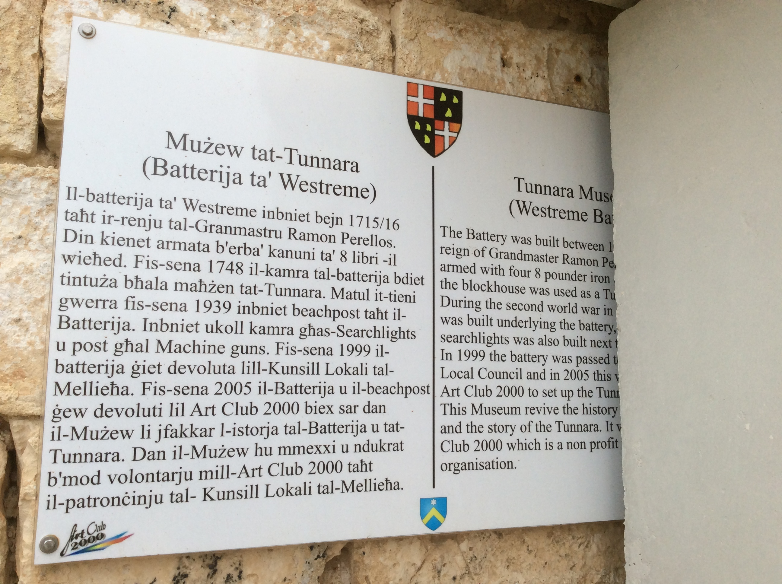 Tunnara Museum whereabouts